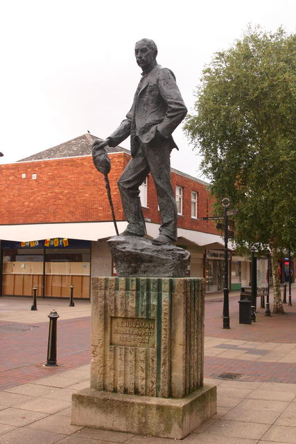 A.E.Housman - local poet. Statue in the pedestrian area in Bromsgrove, Worcestershire. This how the monument appeared until its restoration in 2014.